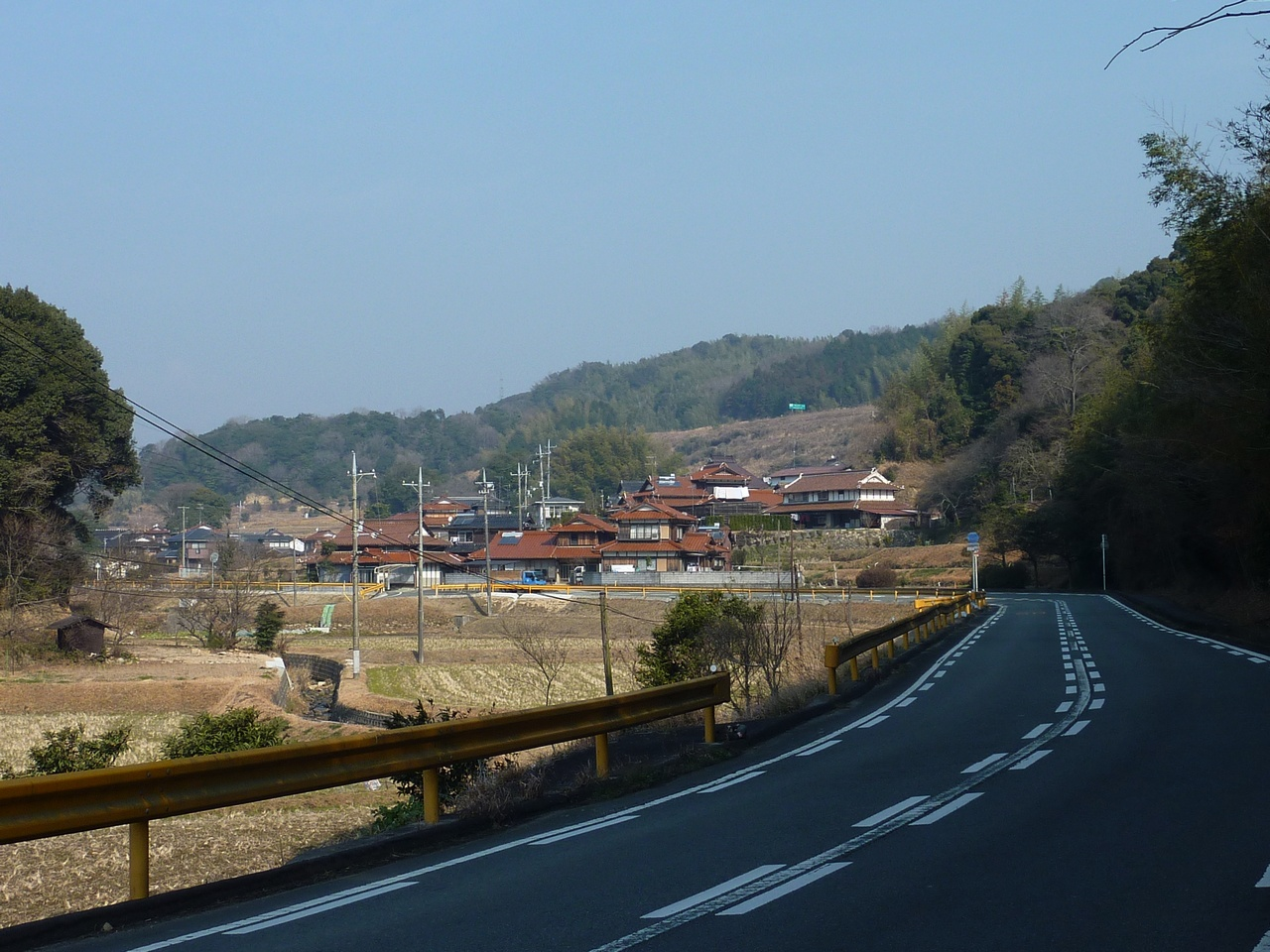 Yamaguchi Prefectural Road No.260 Uka-Sanyo Line (Omotsu, Habu, Sanyo-Onoda City, Yamaguchi Japan)